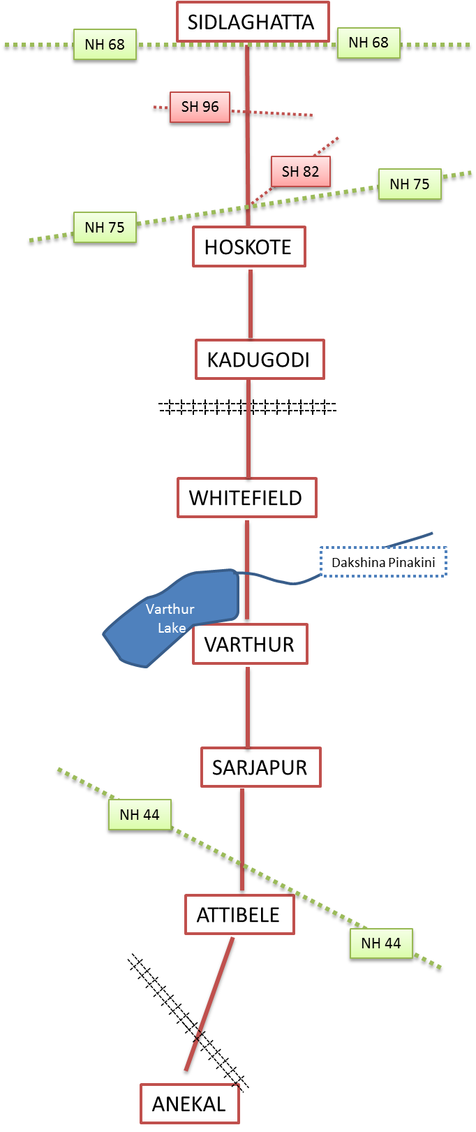 Map of the KA SH 35